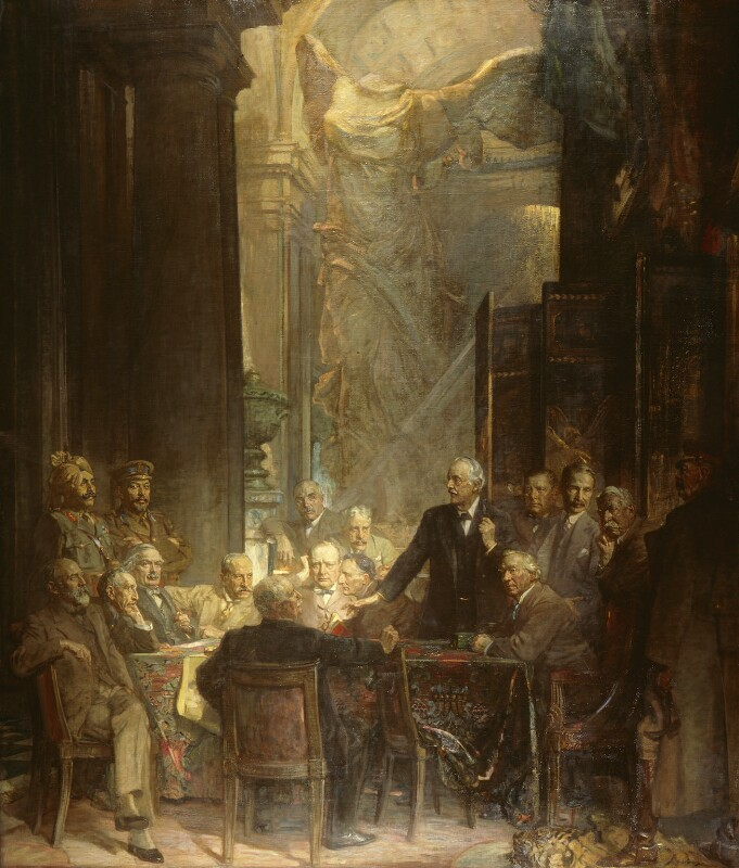 Statesmen of World War I, oil on canvas, 1924-1930